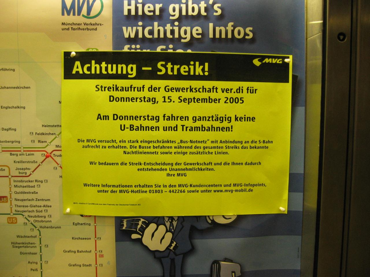 Information paper of the “MVG-Strike”